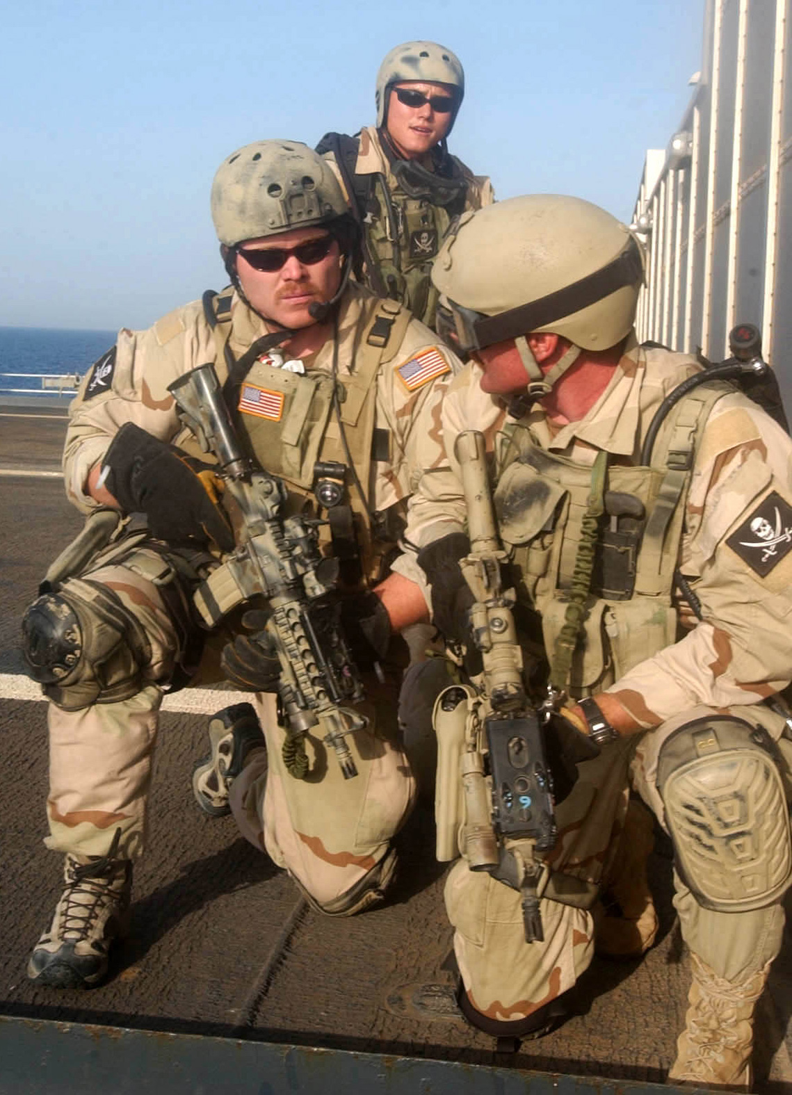 Sea Air Land (SEAL) team members embark from a SH-60H Sea Hawk helicopter onto Joint Venture, High Speed Vessel Experimental One (HSV X1), during a Vessel Boarding Search and Seizure (VBSS) training evolution in support of Operation Iraqi Freedom. Operation Iraqi Freedom is the multi-national coalition effort to liberate the Iraqi people, eliminate possible Iraqi weapons of mass destruction, and end the regime of Saddam Hussein.